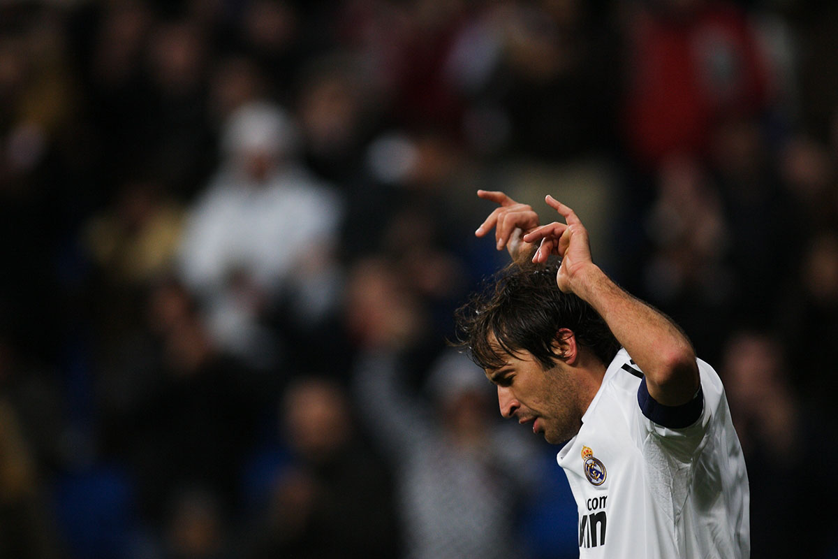 Raul Gonzalez of Real Madrid celebrates his goal during the UEFA Champions League Group H match between Real Madrid and Zenit at the Santiago Bernabeu Stadium in Madrid, Spain.